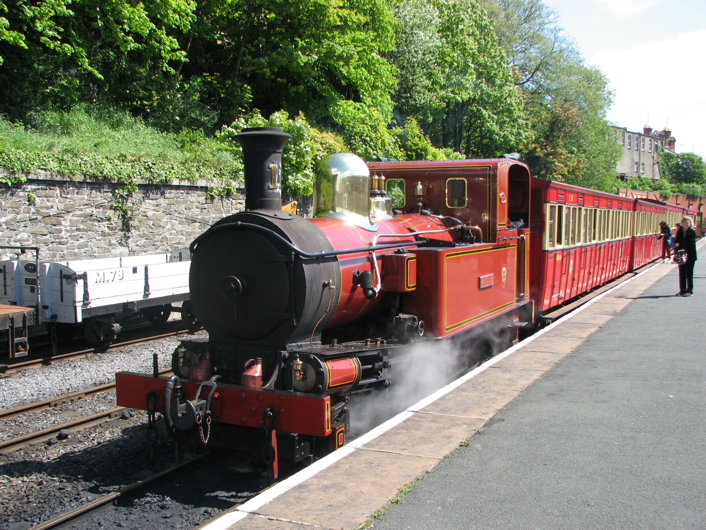 Steam train, Isle of Man